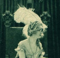 Gladys Cooper in "The Bohemian Girl", from a 1923 publication